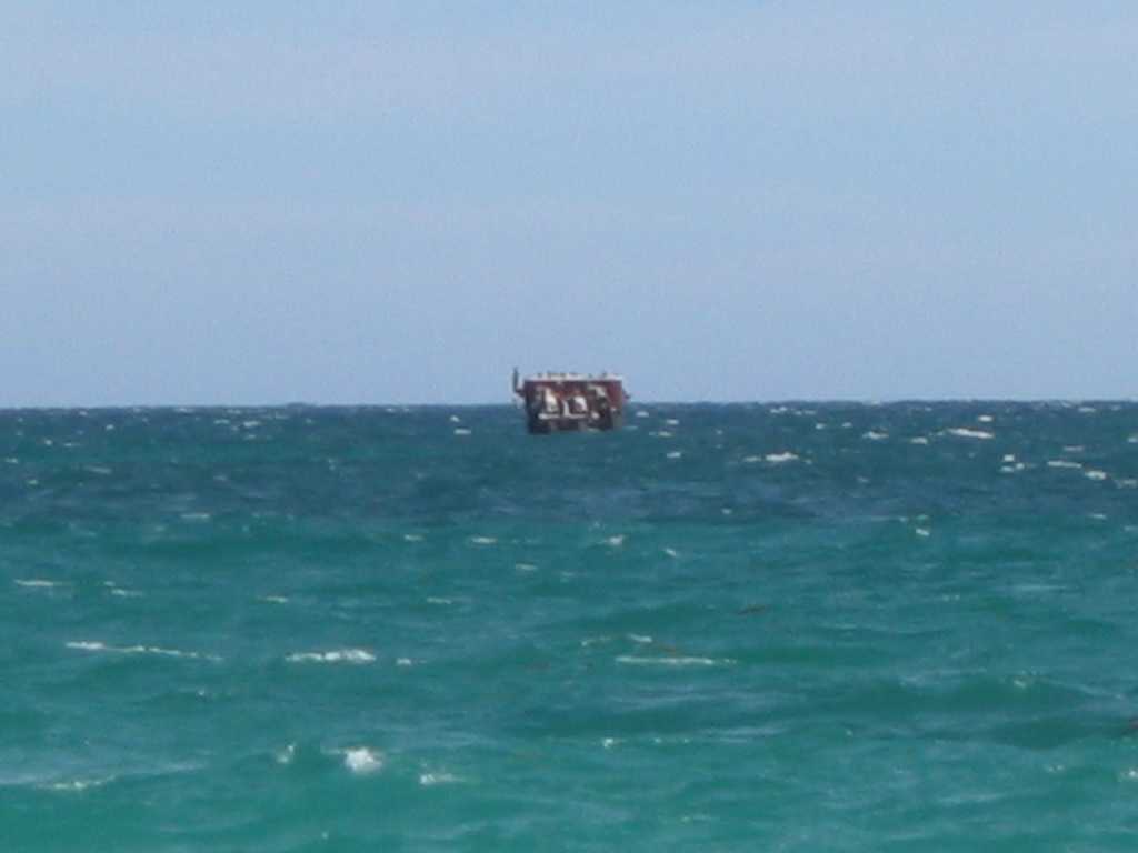 View of the Alkimos wreck from the northwest off the coast of Perth